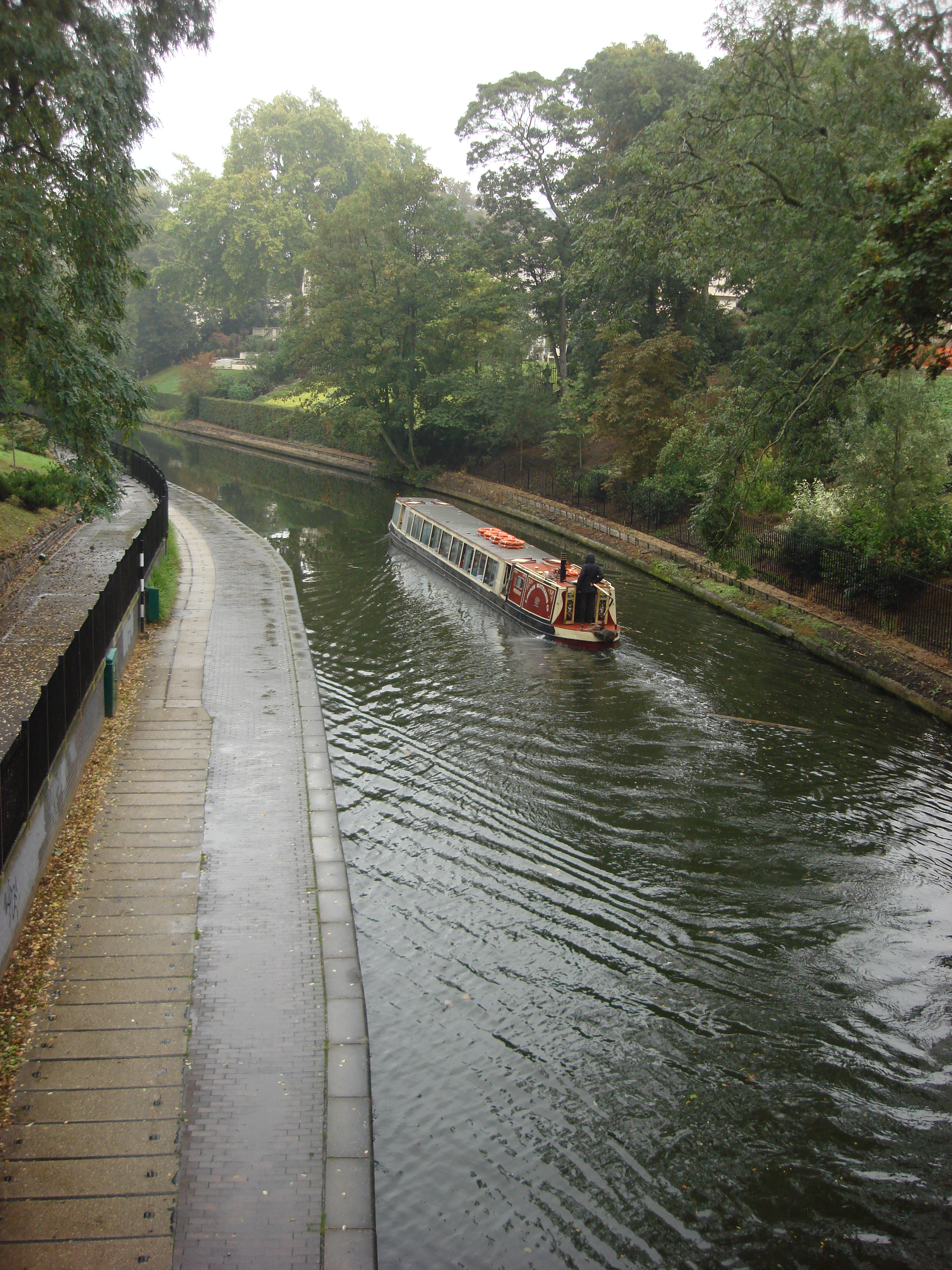 Regent's Canal just north of Regent's Park